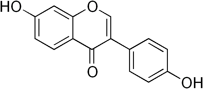 Chemical Structure of Daidzein